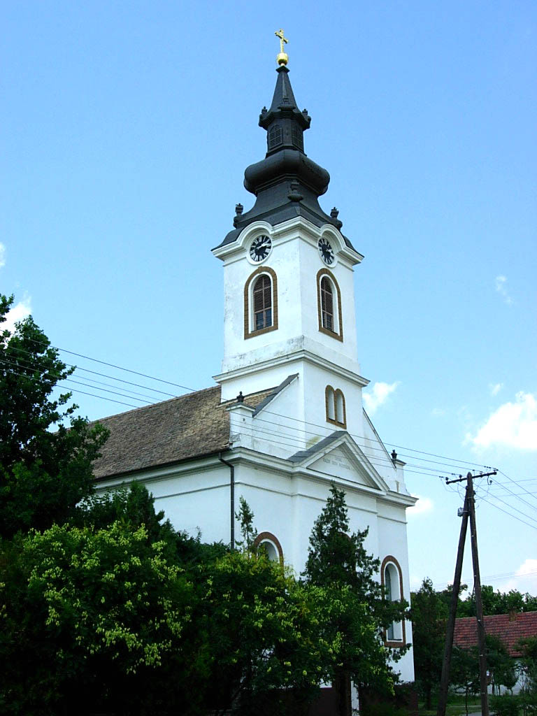 The Evangelical Church in Silbaš.